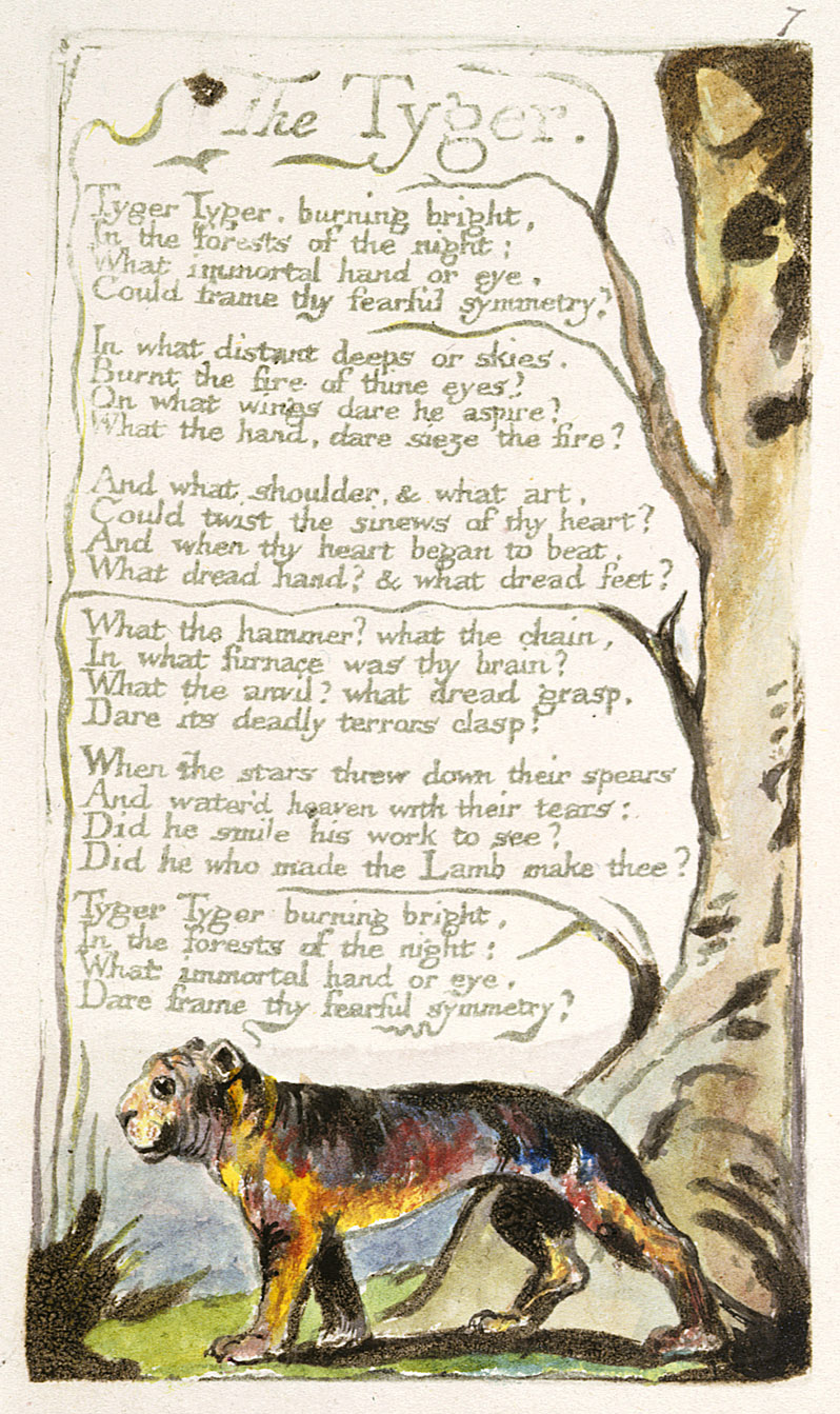 scan of plate printed by the author, collected in Songs of Experience, designed after 1789 and printed in 1794. Copy A of the particular page held by the British Museum. The British museum also holds Copy B, which is available at File:The_Tyger_BM_b_1794.jpg